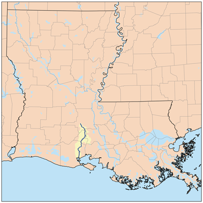 Map of the Vermilion River watershed.